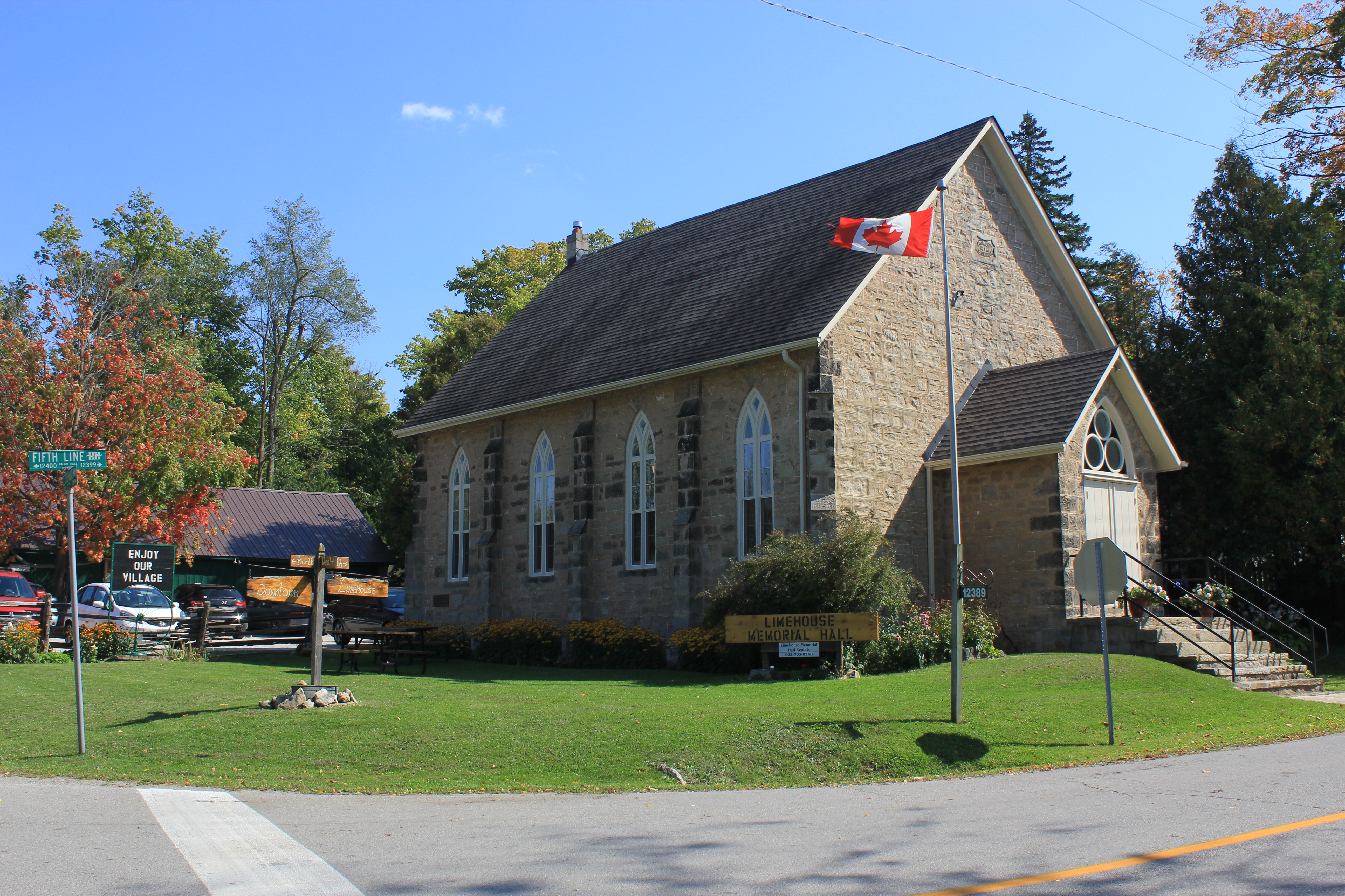 Limehouse Memorial Hall, built 1876